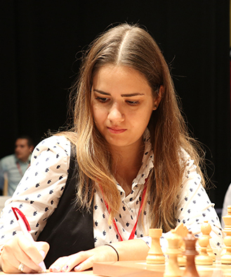 Alina Kashlinskaya at Superfinal of the Russian Chess Championship, Satka, 2018